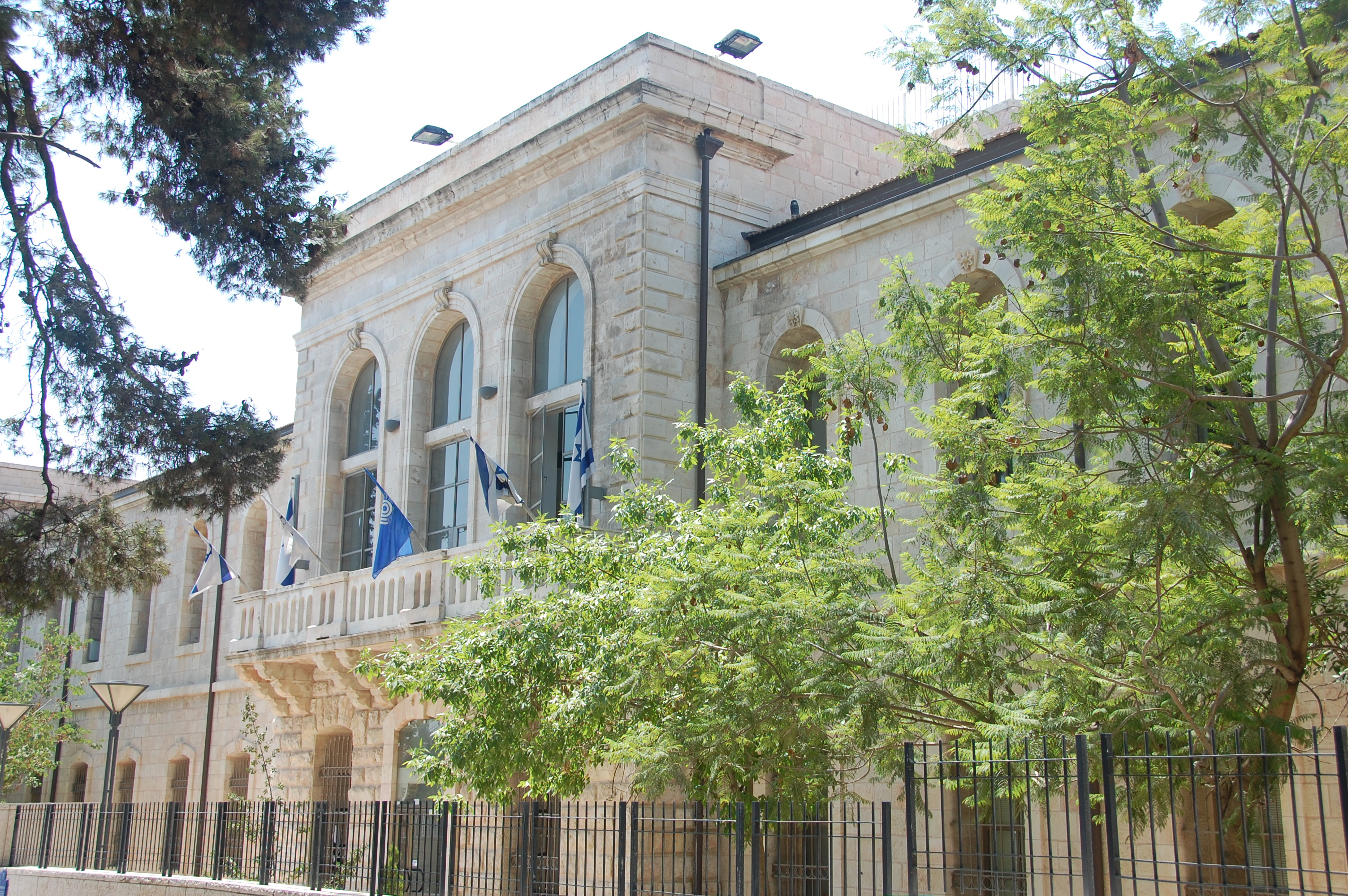 Israel Broadcasting Authority old shaarey